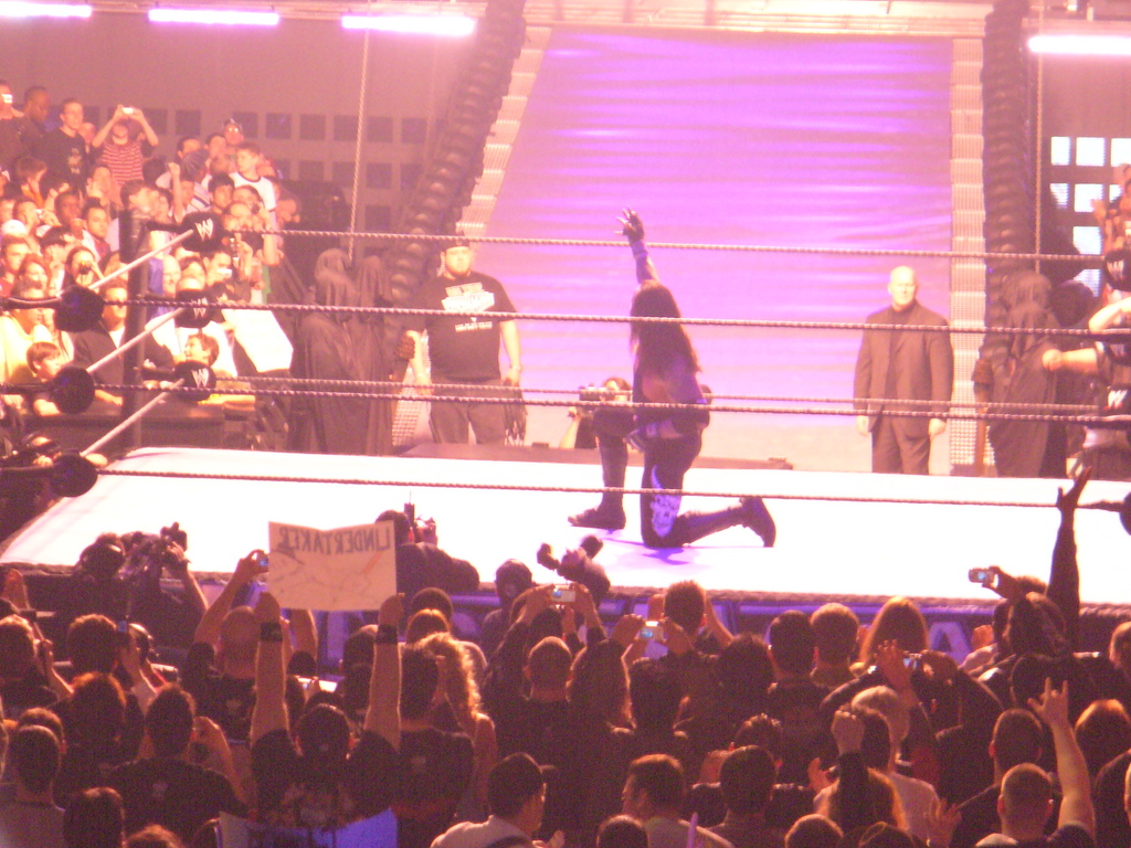 Took picture of 'Taker at WrestleMania 22